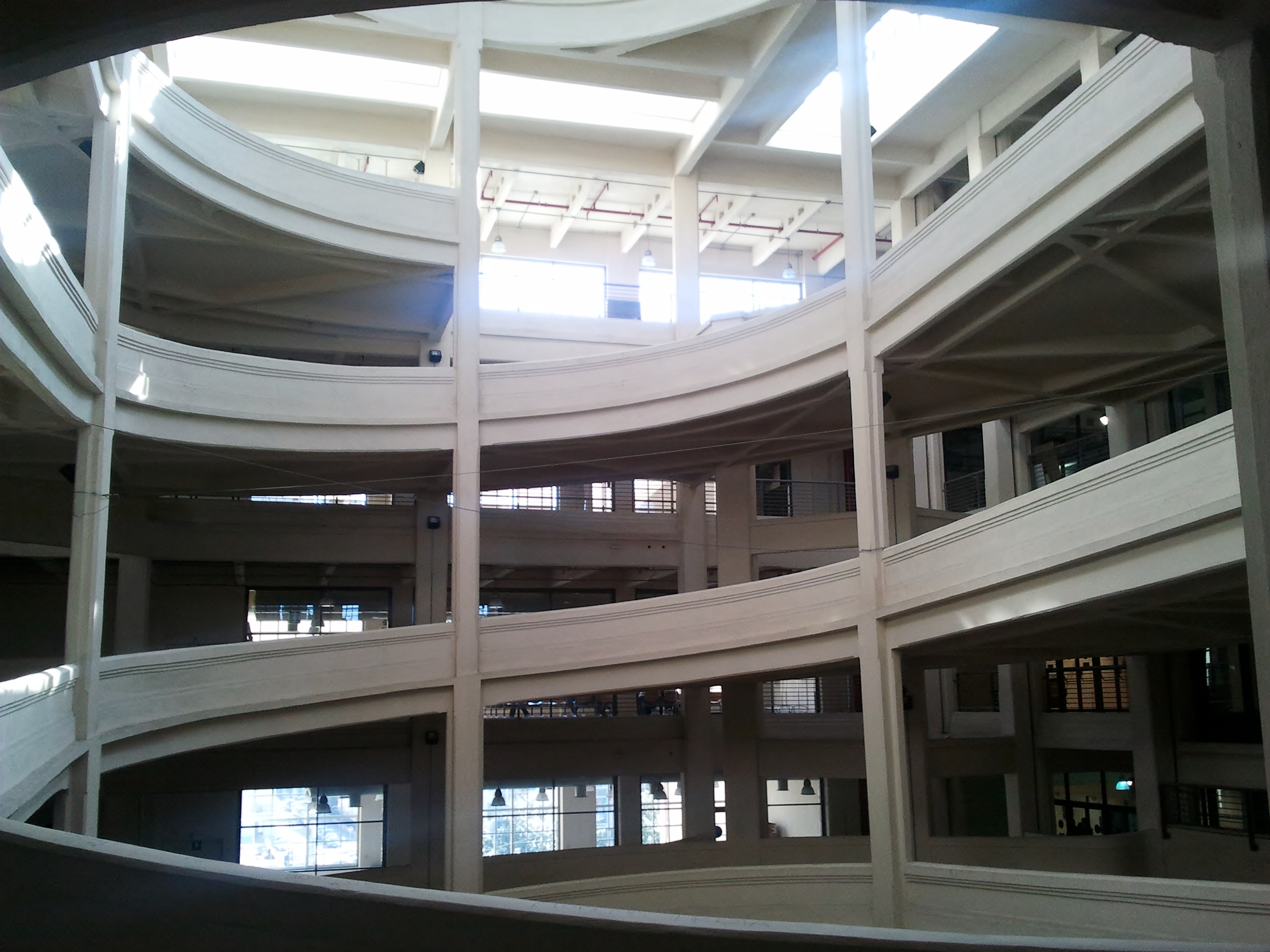 Left Ramp. Lingotto. Torino. Italy